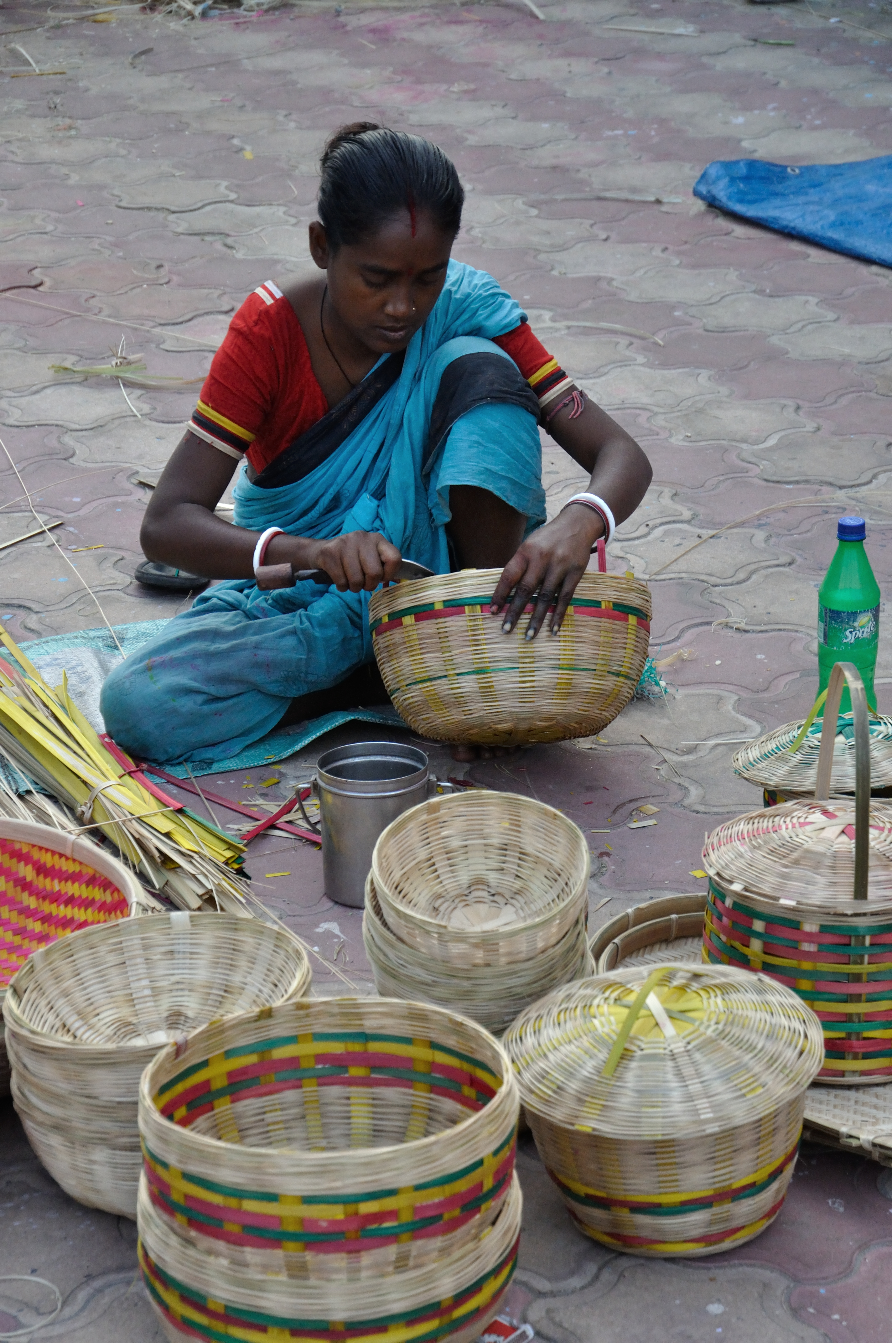 Photographed during the '22nd West Bengal State Handicraft Expo 2014' on Milan Mela Complex in Kolkata.